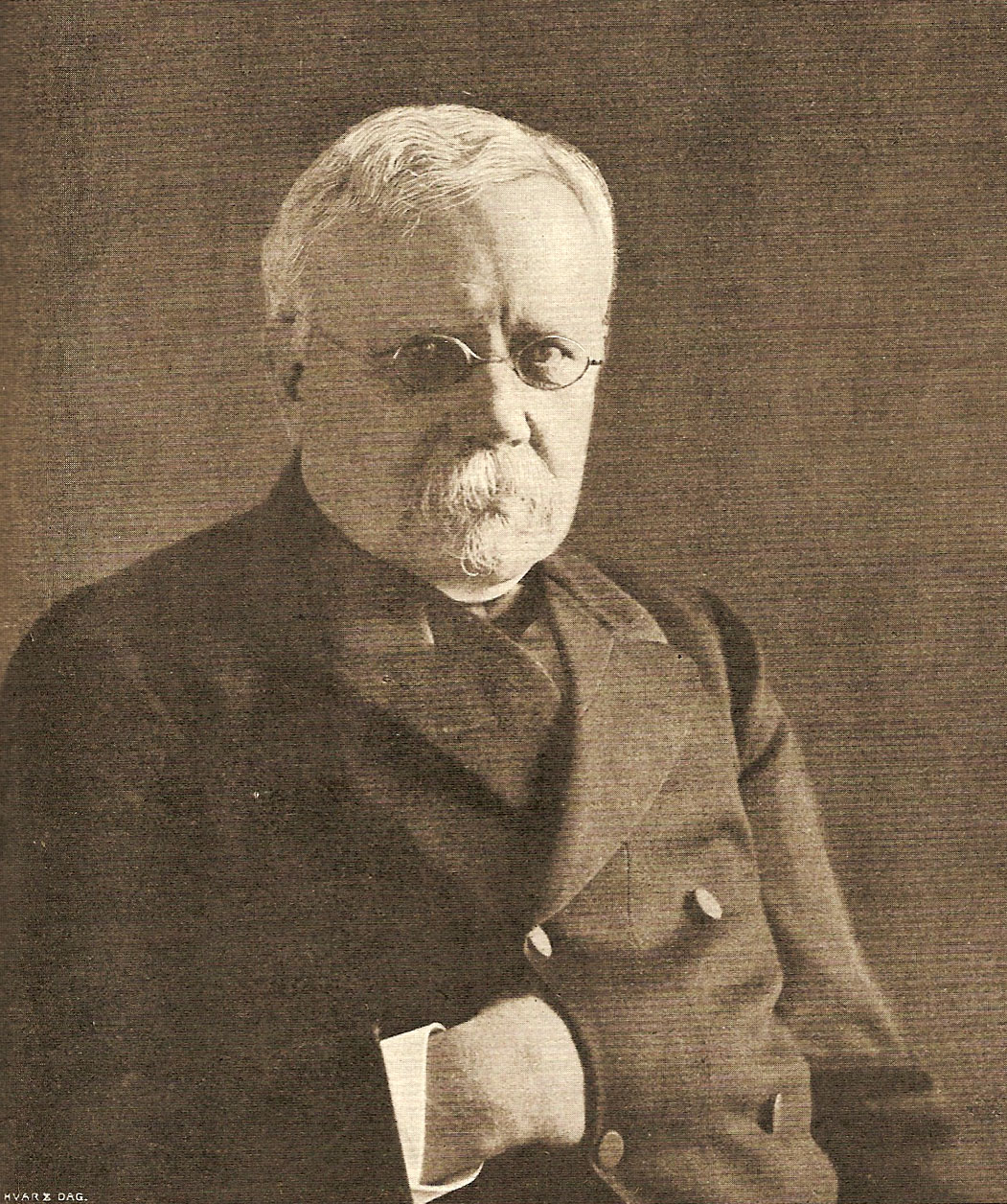 Swedish professor Edvard Welander (1876-1917).